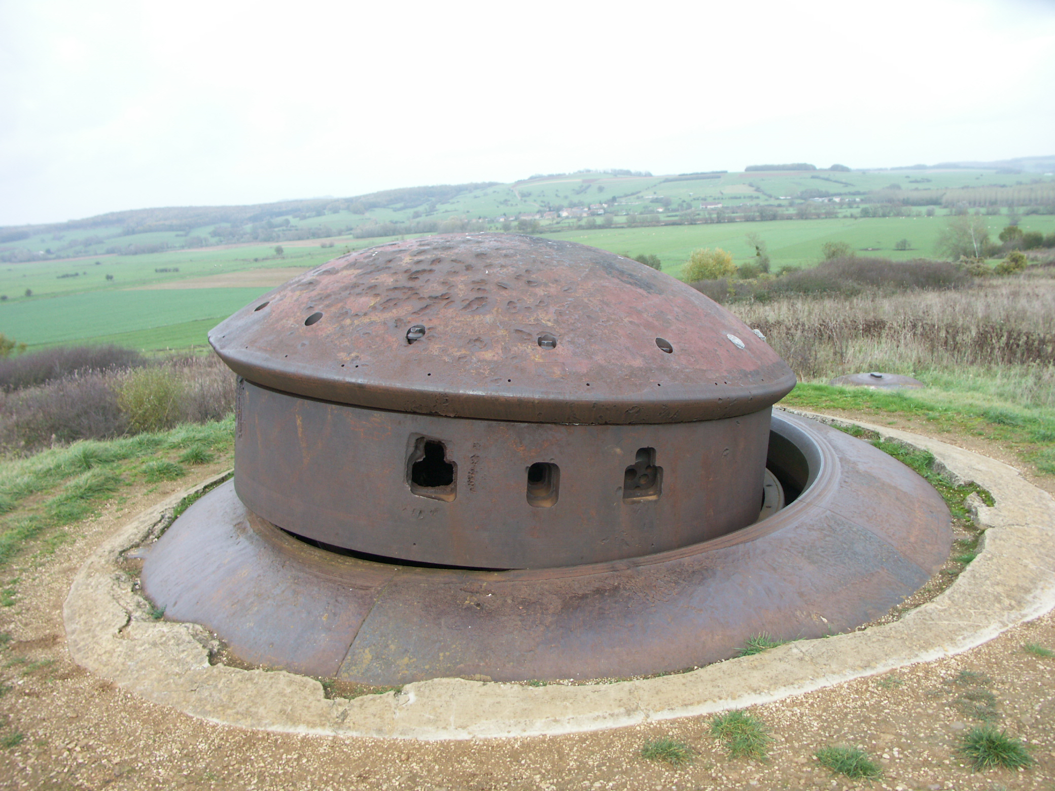 The AM Turret at the block 2